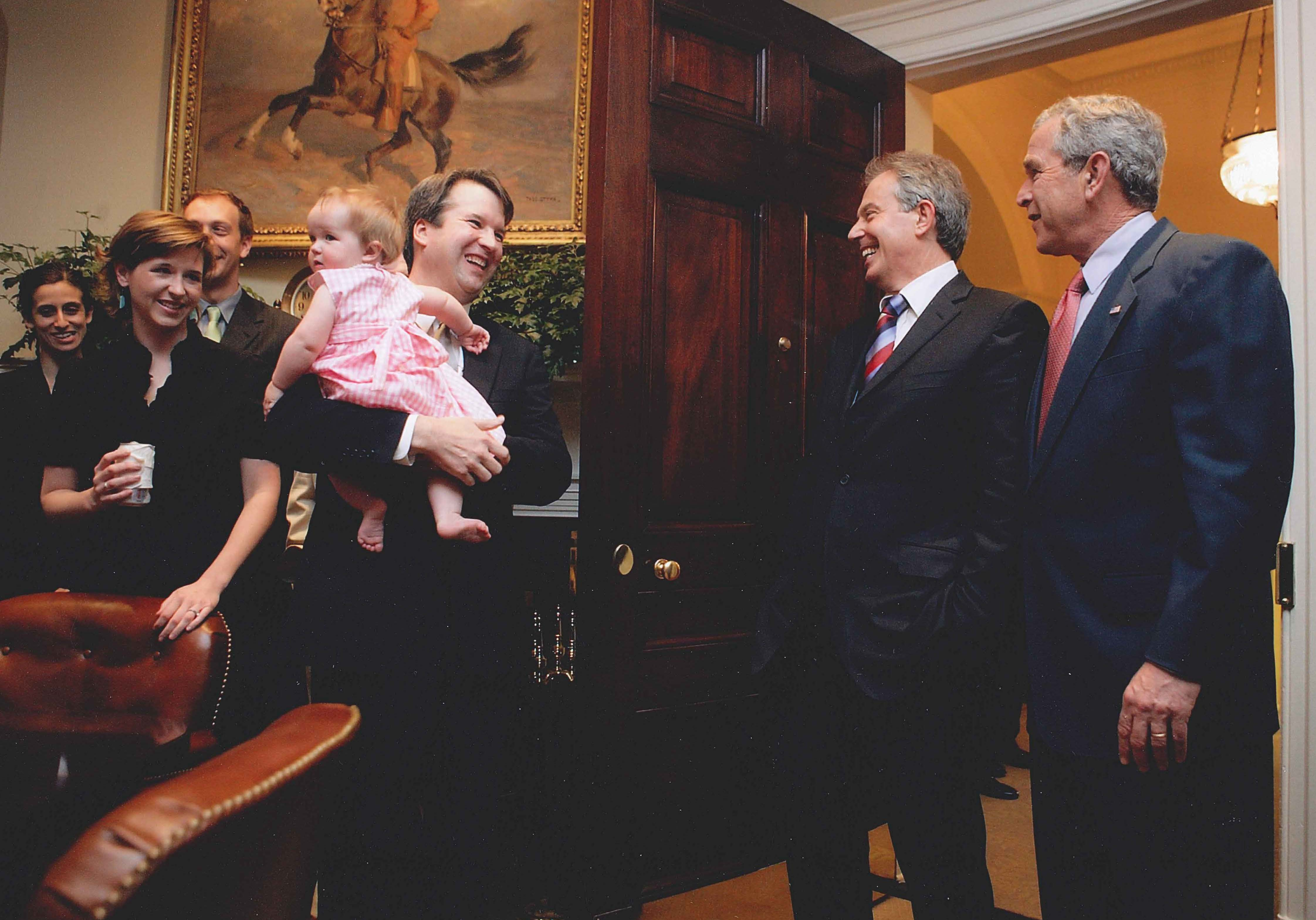 Brett Kavanaugh greeting Tony Blair. Kavanaugh is holding his daughter, while his wife, Ashley, is next to him. President George W. Bush is next to Tony Blair. Part of a slide show, "A Remarkable Career in Photos: Judge Kavanaugh to Testify Before the Senate"